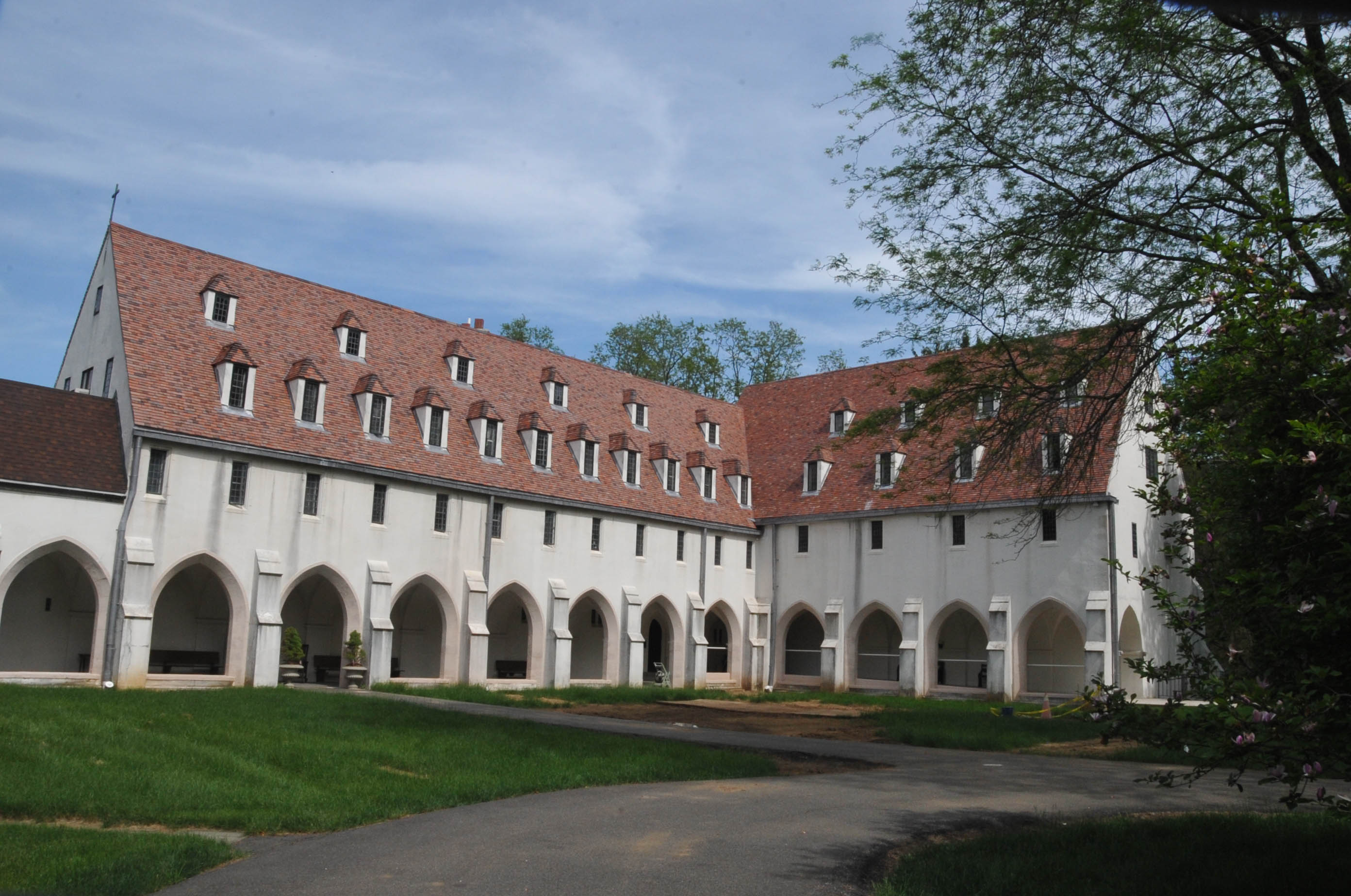 AN ANGLICAN RELIGIOUS ORDER OF AUGUSTINIAN NUNS. THE COMMUNITY WAS FOUNDED IN ENGLAND IN 1852 BY HARRIET MONSELL (THE FIRST SUPERIOR), A CLERGY WIDOW, AND THOMAS THELLUSSON CARTER A PRIEST AT WINDSOR. THE PURPOSE OF THE ORDER WAS TO HELP MARGINALISED WOMEN – MAINLY SINGLE MOTHERS, THE HOMELESS AND SEX TRADE WORKERS – BY PROVIDING THEM SHELTER AND TEACHING THEM A TRADE. THEIR MAIN LOCATION IN THE UNITED STATES IS AT MENDHAM IN MORRIS COUNTY